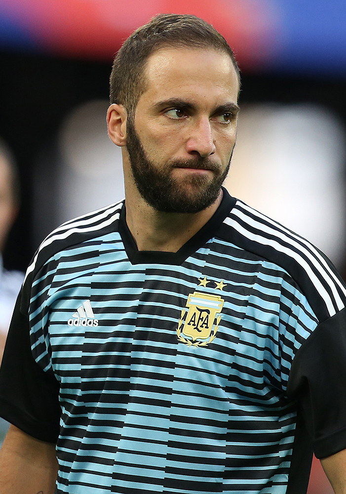 Argentine footballer Gonzalo Higuaín on 26 June 2018, ahead of the 2018 FIFA World Cup group stage match against Nigeria.